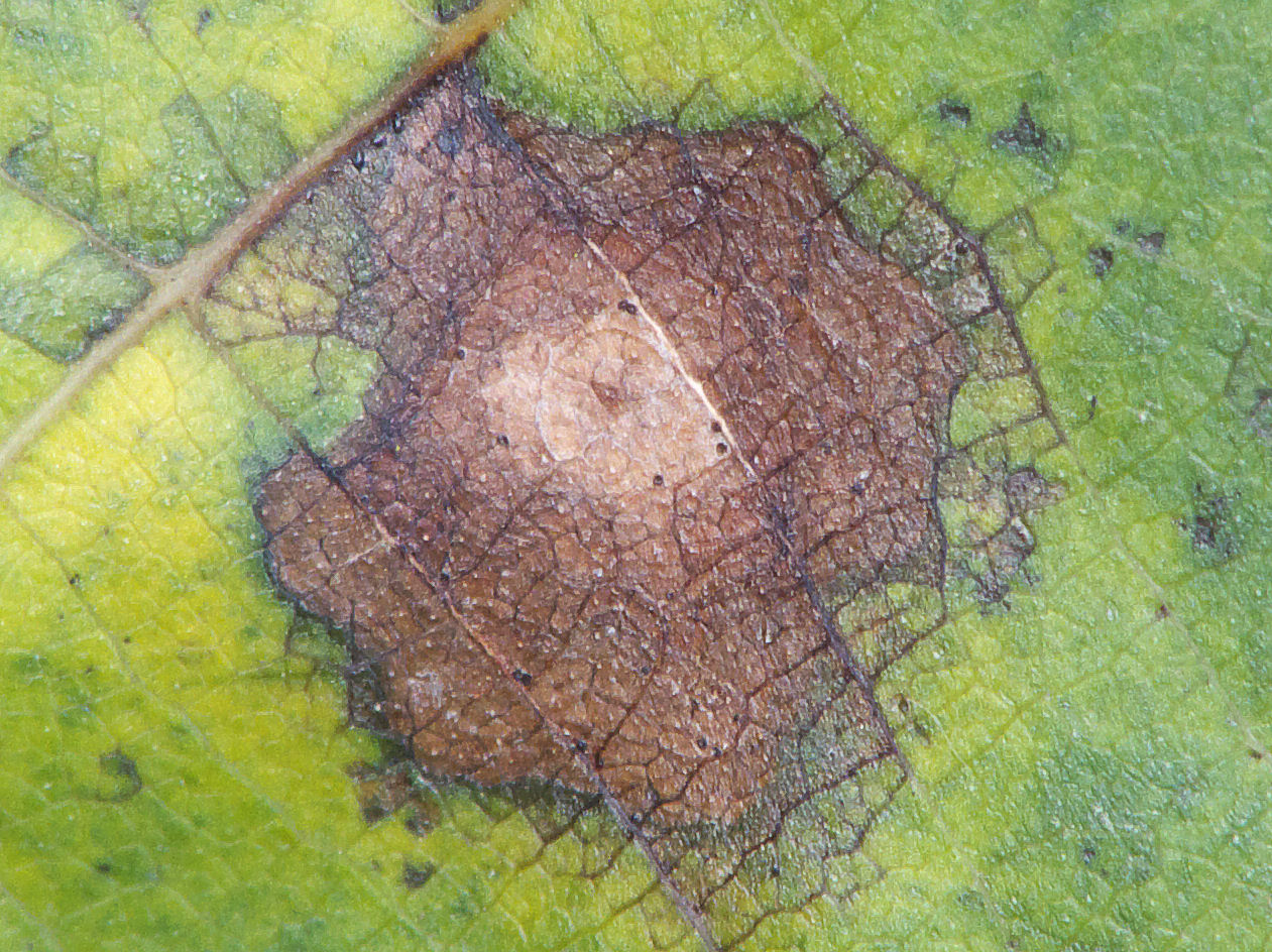 Gnomonia leptostyla at Juglans regia backside leaf